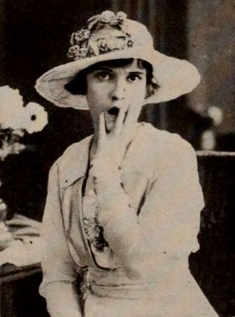 Still from the American comedy drama film The Fair Pretender (1918) with Madge Kennedy, on page 18 of the May 25, 1918 Exhibitors Herald.